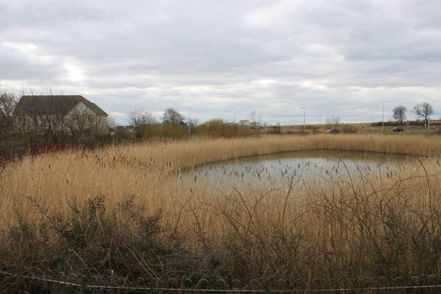 Suds pond at Cromar Drive, Dunfermline, Scotland. Man-made pond known as suds, short for Sustainable Urban Drainage System.